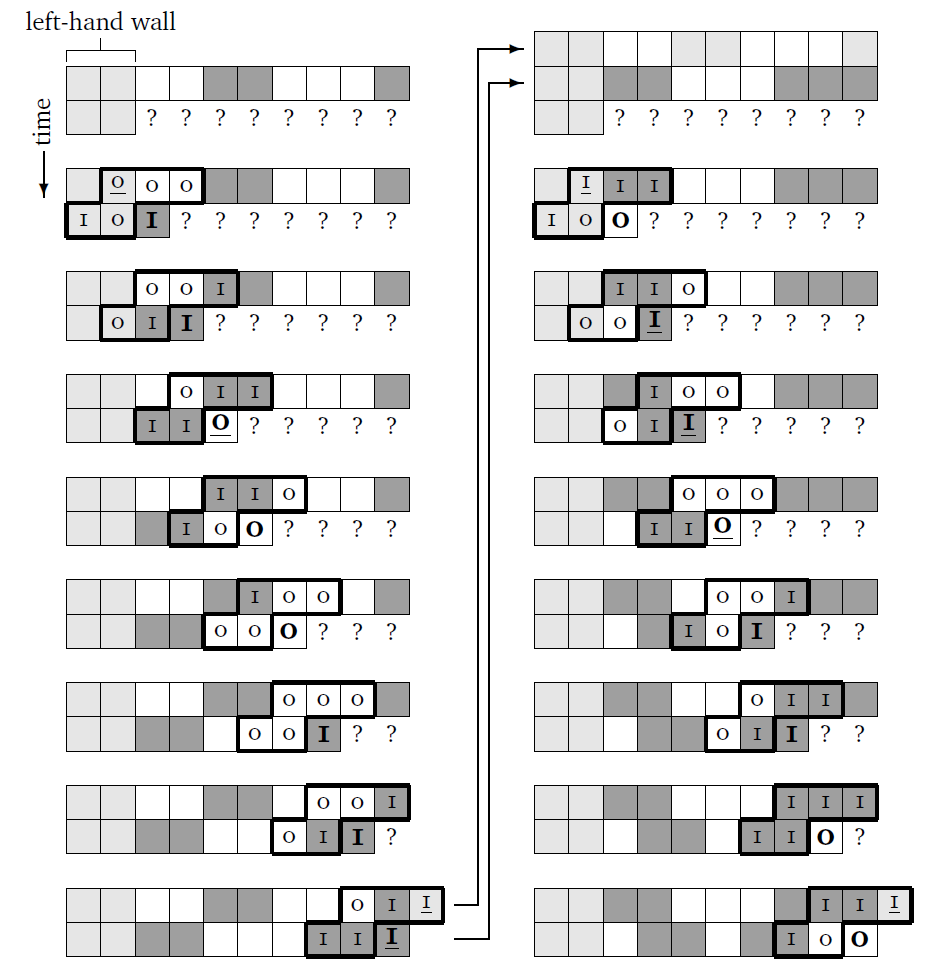 The semi-random process used to create mazes on the fly in the Atari 2600 game Entombed (Figure 7 of source paper). Figure caption is: "Maze row generation example (generated bits are bold, PRNG bits are underlined, and lighter gray boxes are 1-bits present but unused)"